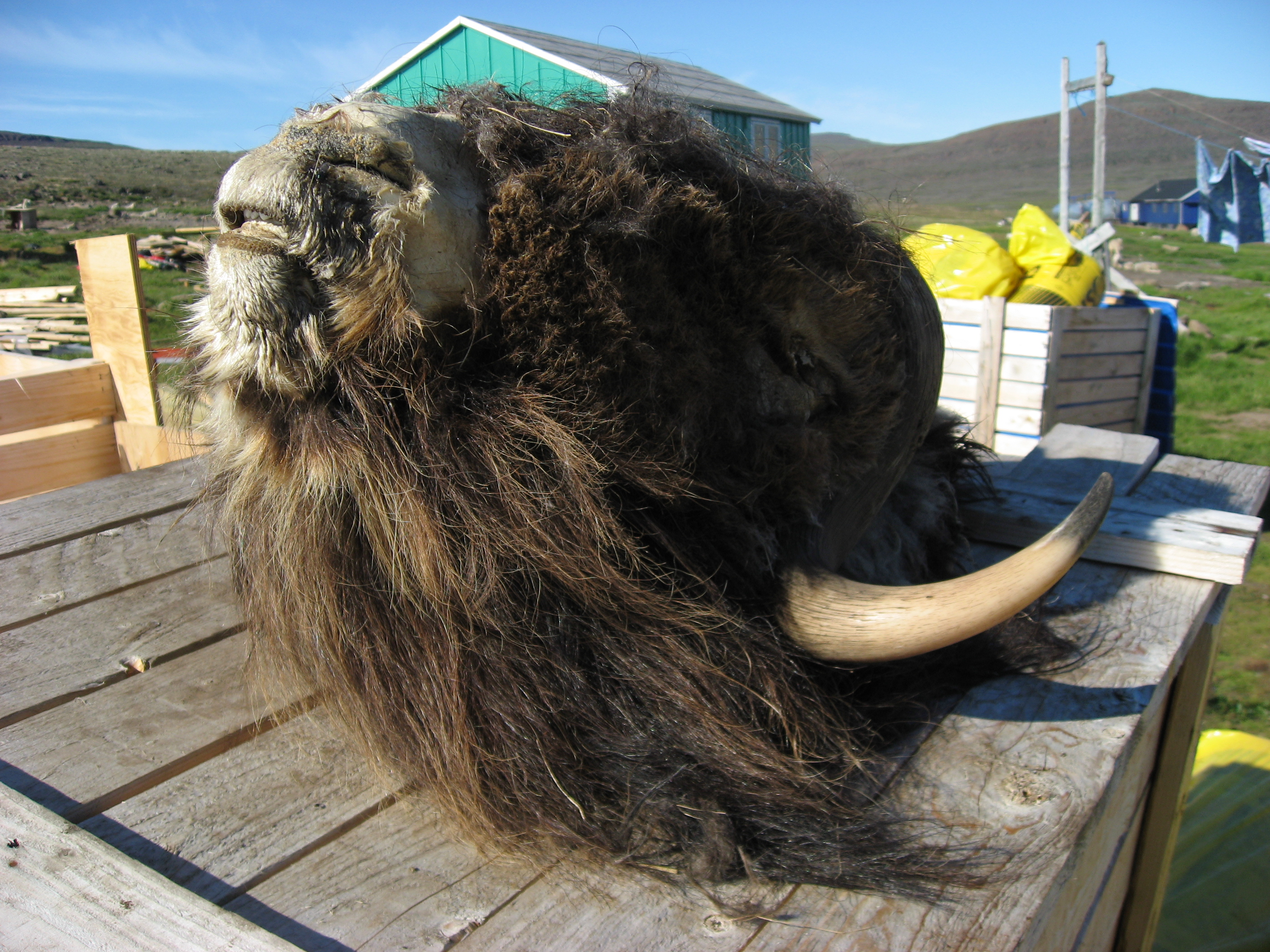 Head of a Muskox (Ovibos moschatus) observed in Upernavik Kujalleq, Greenland.